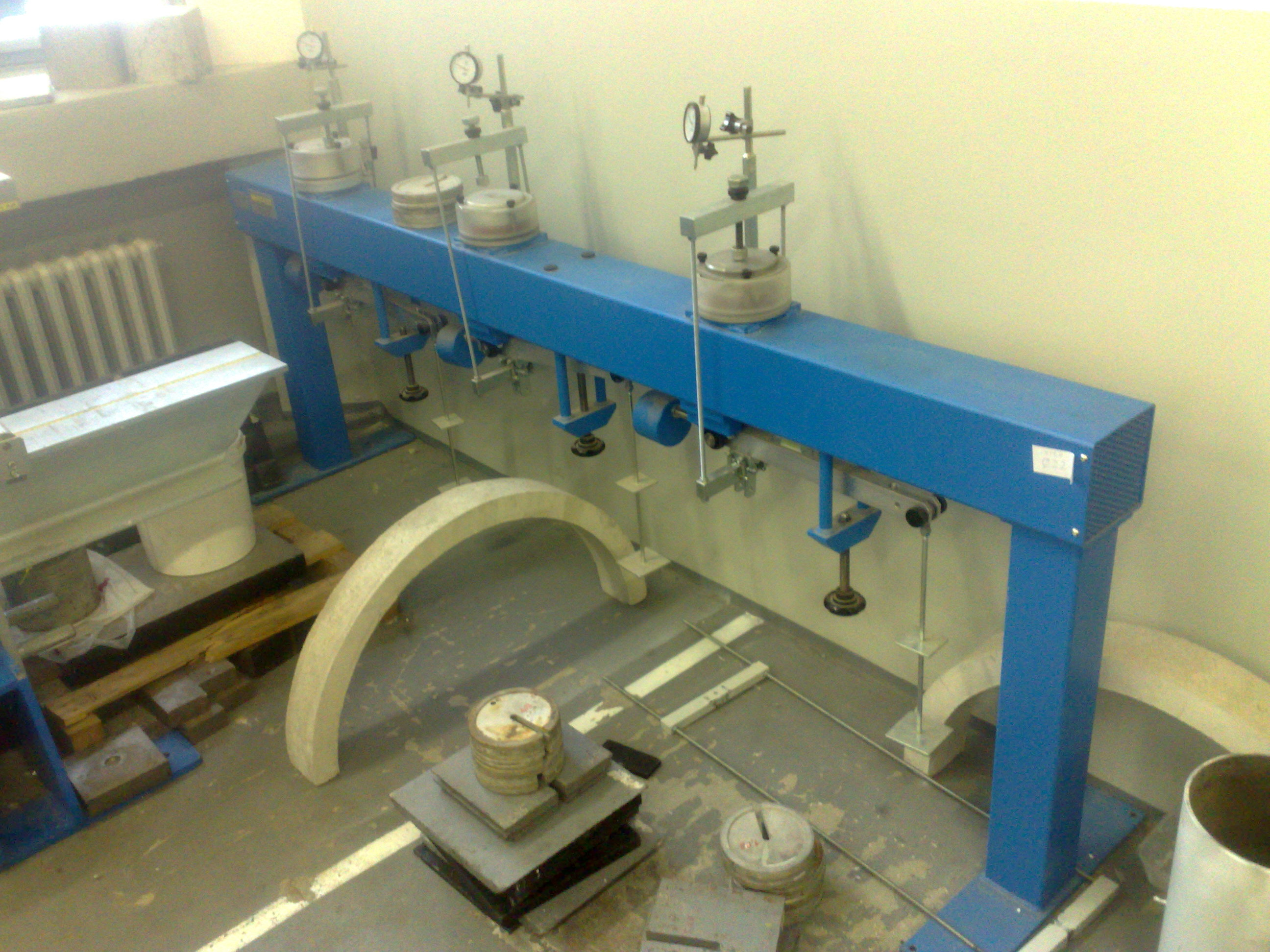 oedometer - a device for measuring the uniaxial compressibility of soil